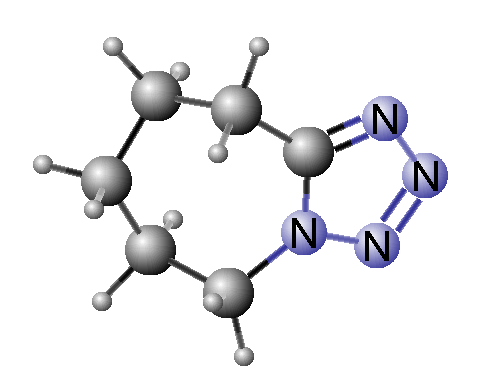 3D Chemical structure of the Pentilenotetrazol (Español), Pentylenetetrazol (English).